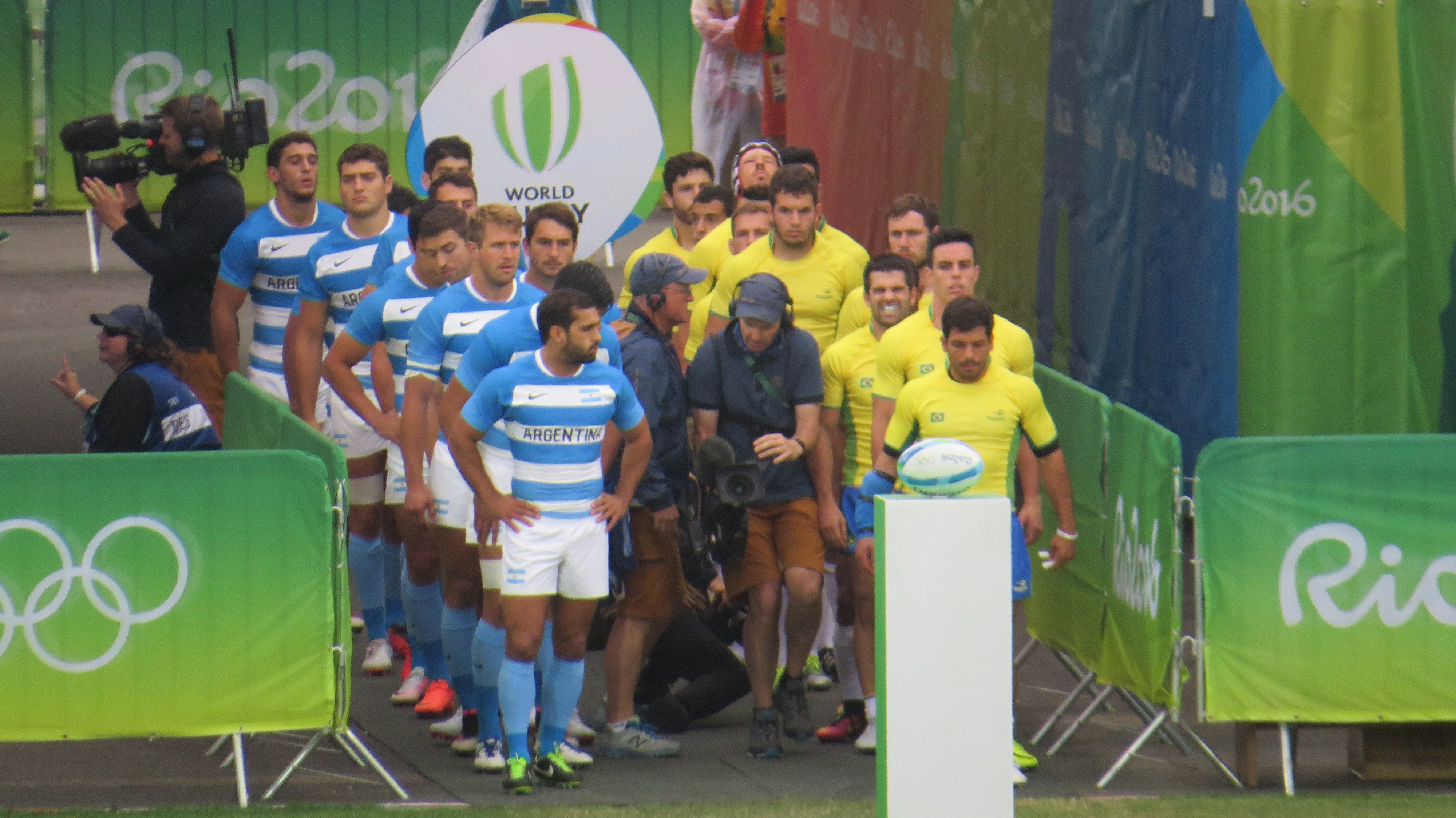 Rio 2016. Rugby 192